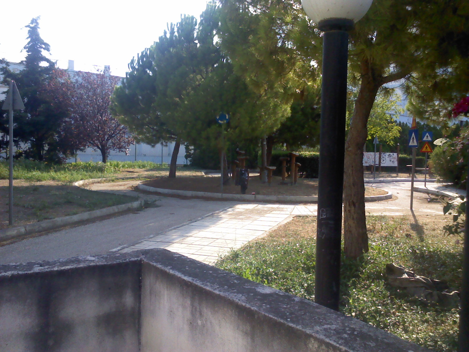 Park of Traffic Education Rentis